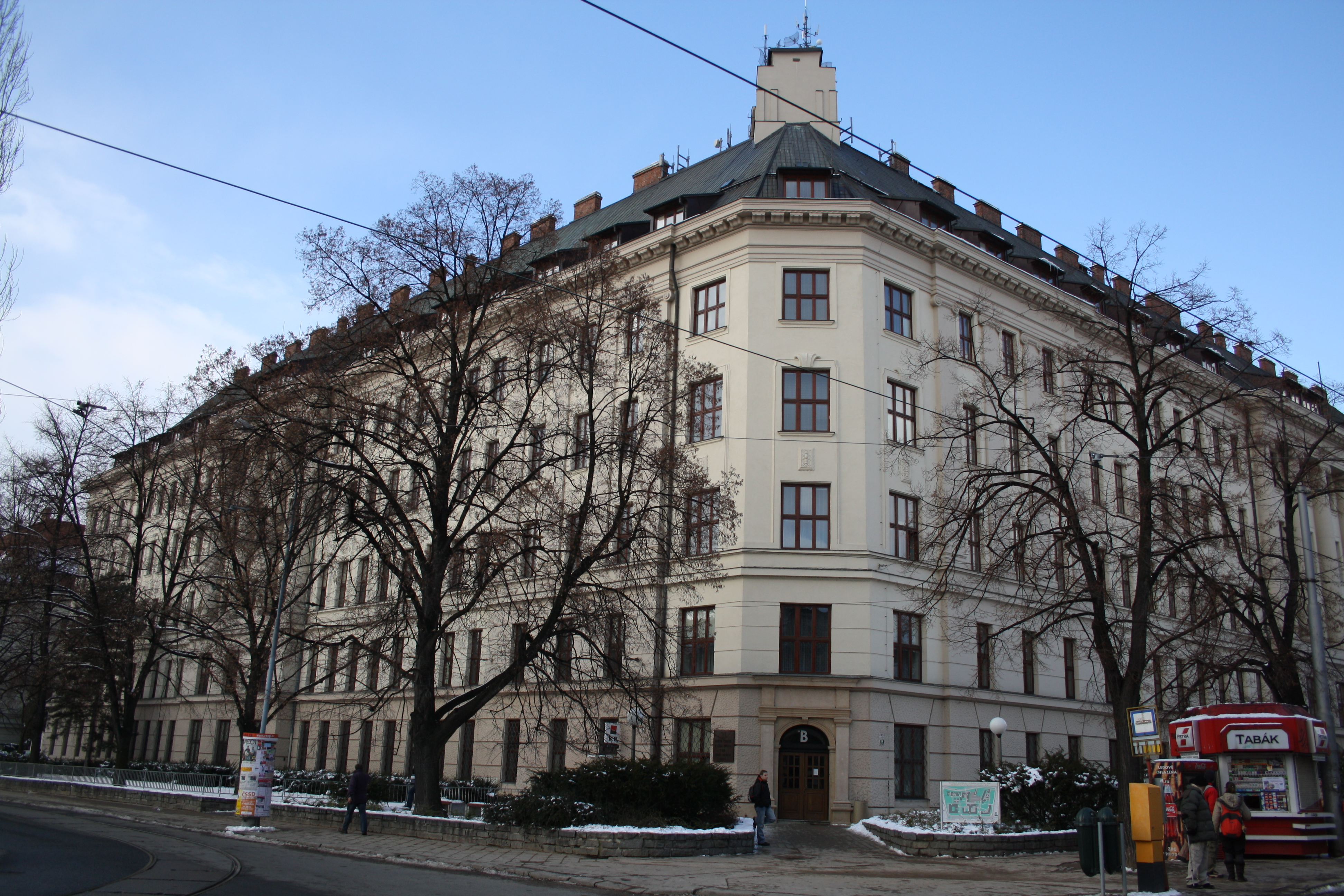 Faculty of Forestry and Wood Technology at MENDELU in Brno, building B.